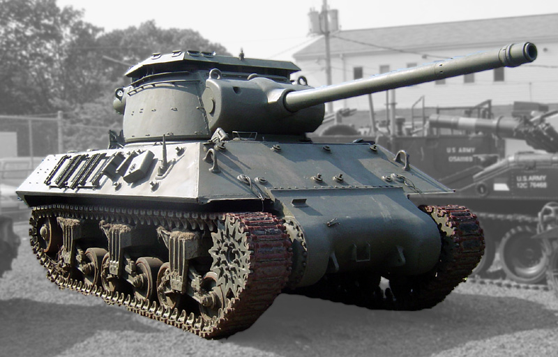 90 mm Gun Motor Carriage M36B2 on display at the Military Museum of the Southern New England in Danbury, CT. The picture taken September 9, 2006.